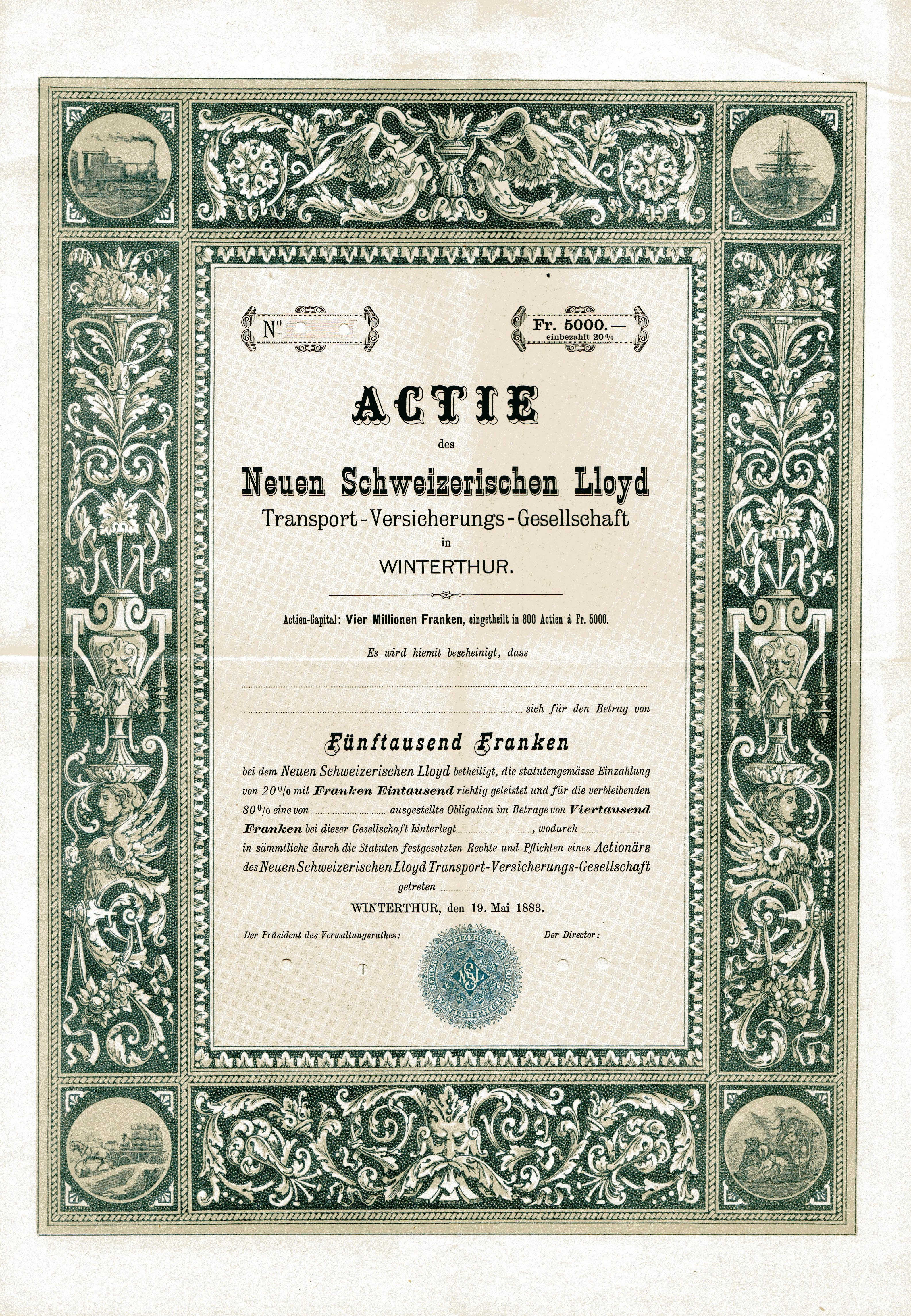 Share of the Neuen Schweizerischen Lloyd Transport-Versicherungs-Gesellschaft, issued 19. May 1883